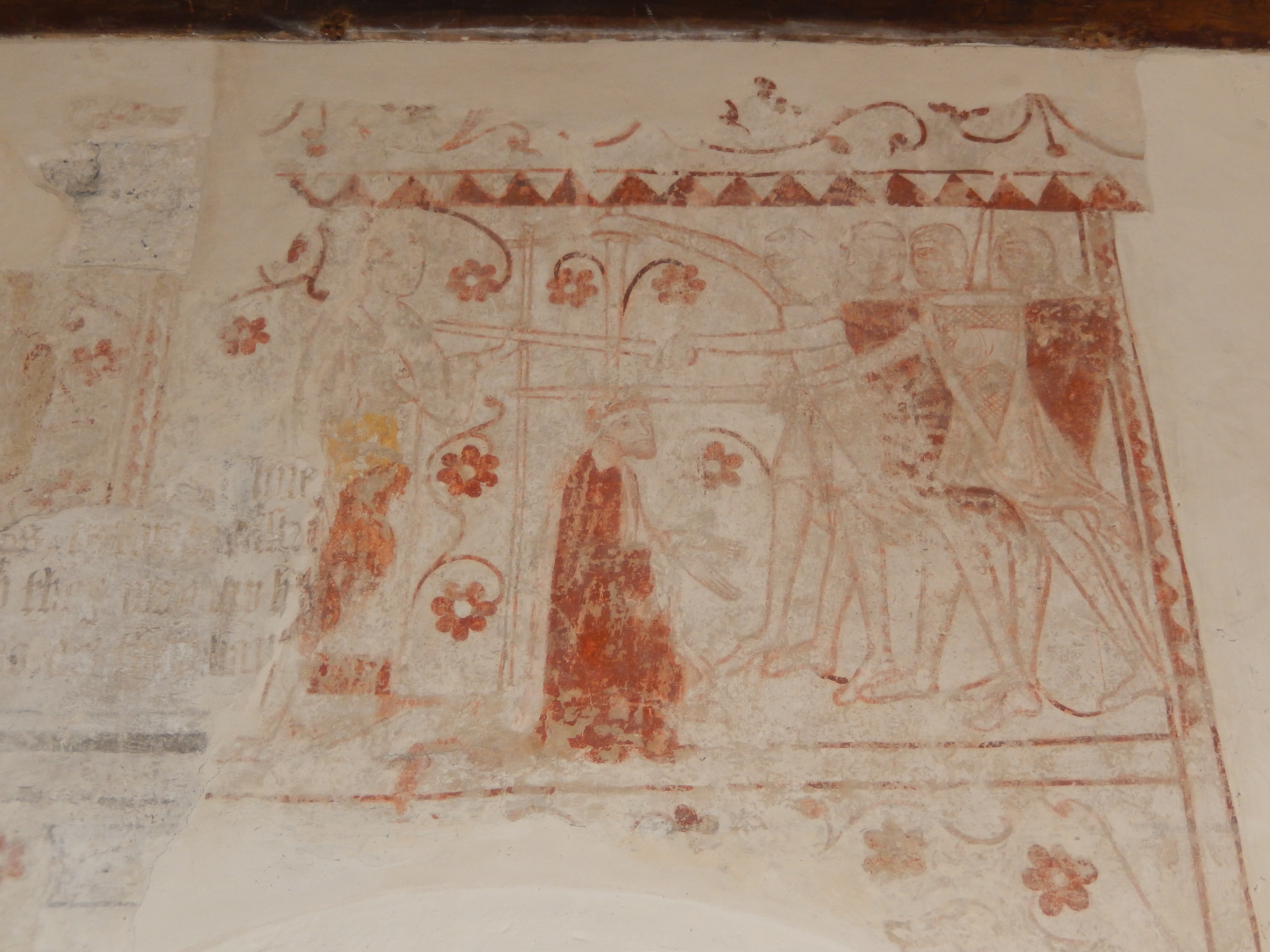 Wall painting depicting the murder of Thomas Becket by four knights in 1170. On the south wall of the church of St James at Bramley, Hampshire, above the original south doorway. Late 12th or early 13th century (believed to have been painted within fifty years of the martyrdom). The painting shows the four knights (Reginald FitzUrse, Hugh de Morville, William de Tracy and Richard le Breton) on the right side, Thomas Becket kneeling in the centre, and Edward Grim (who recorded the event and was wounded trying to protect Thomas) on the left side, blocking a sword with his bare hand.